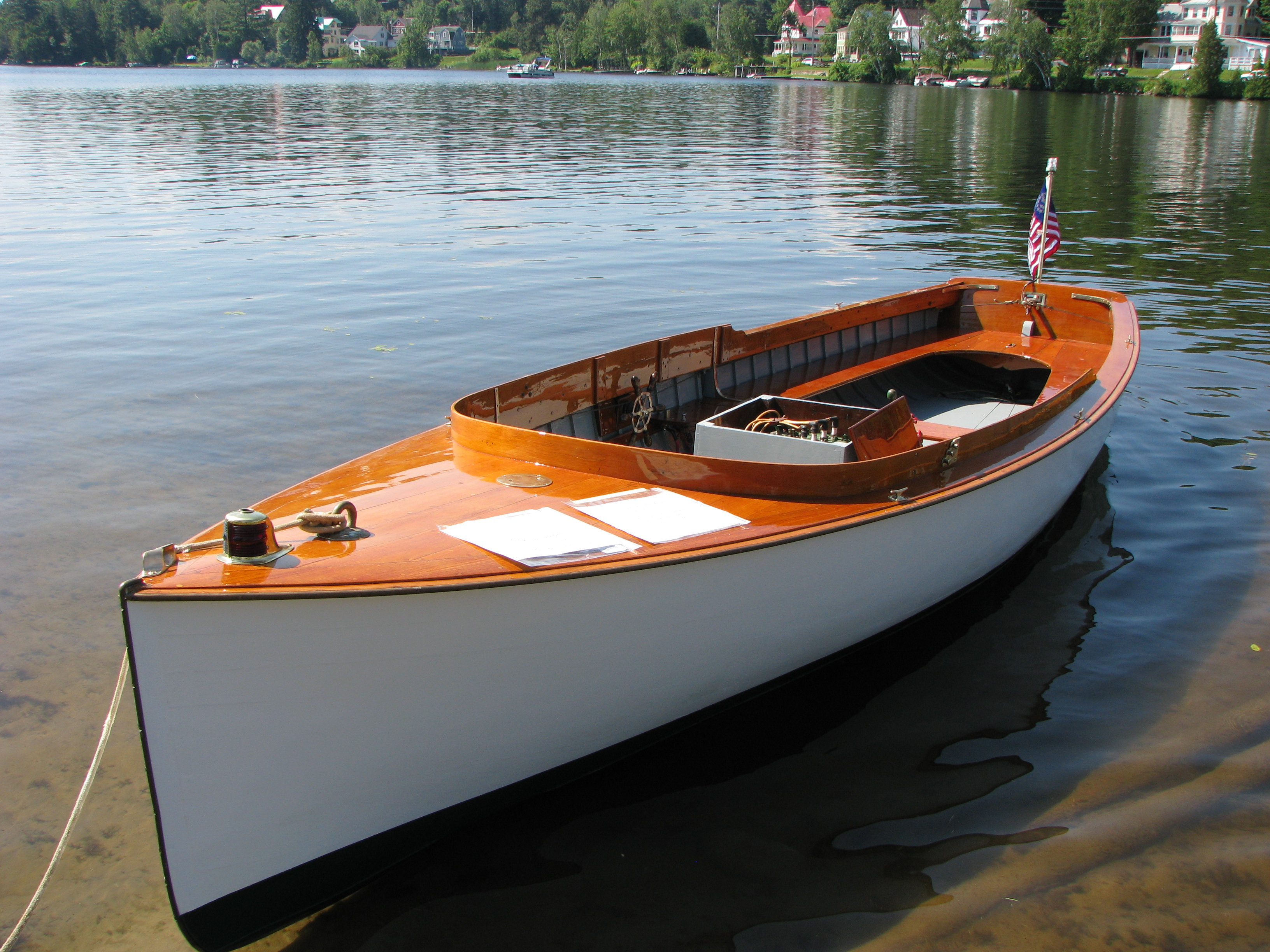 1910 Mathis Launch, 15 Horsepower Universal Engine, from Rainbow Lake, NY. Originally used at the Adirondack-Florida School, Clear Pond, Onchiota, NY. Bought from the Buster Crabbe boys camp in the late 1960s. Restored by Spencer Boatworks, Saranac Lake, NY.